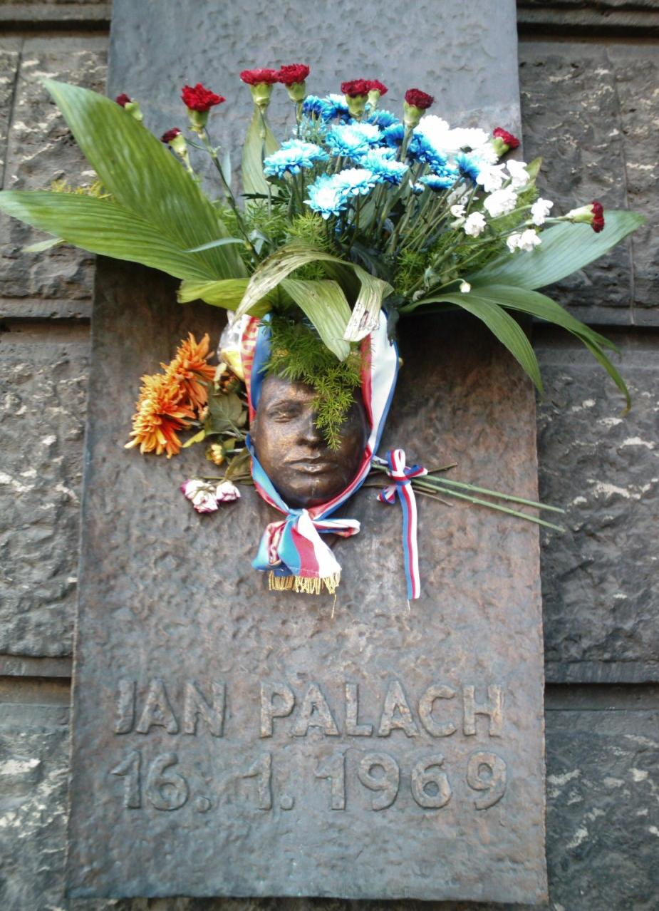 Placa en honor al estudiante checo Jan Palach. Monument in honor of the student Jan Palach.